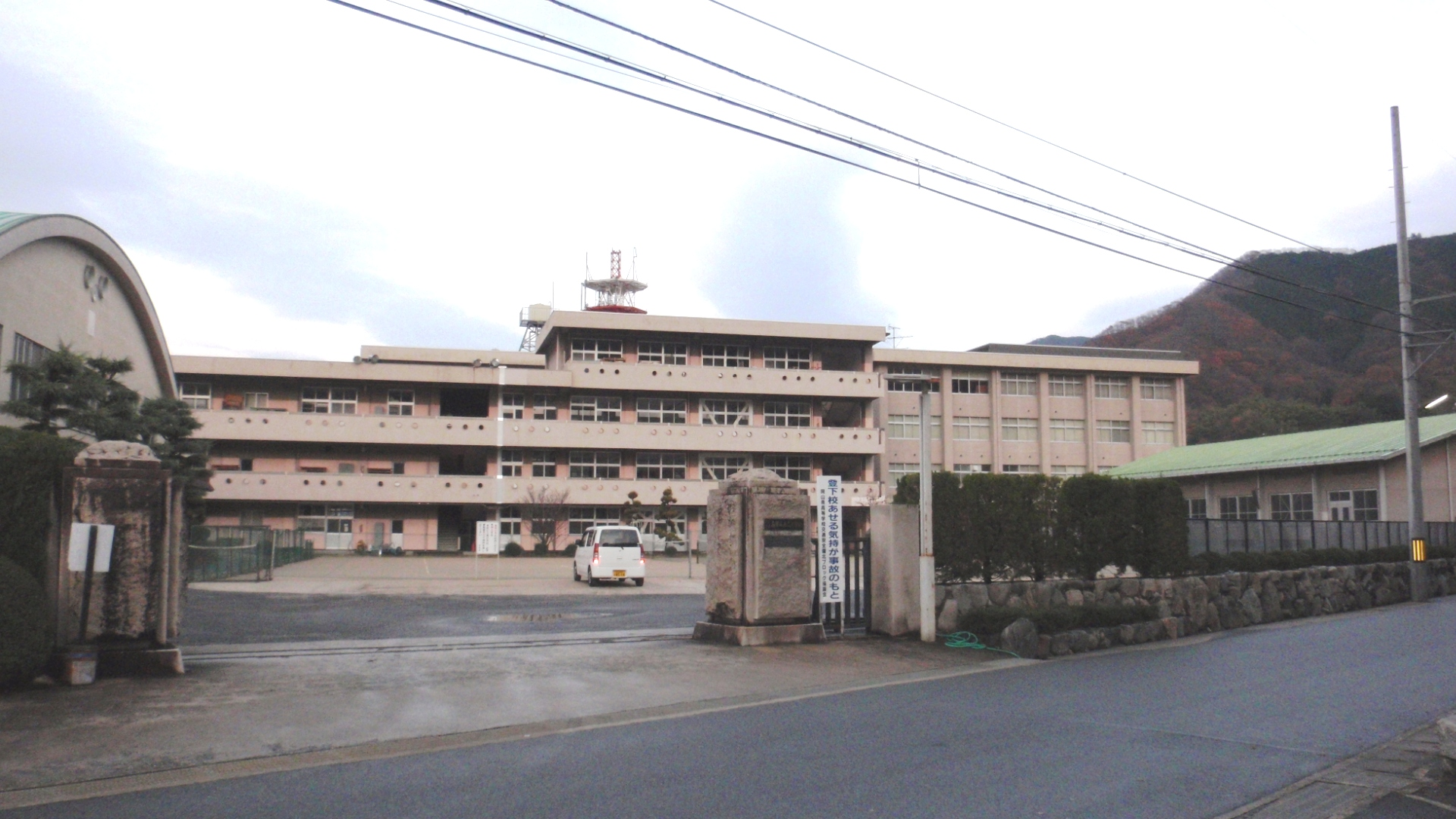 Takahashi Jonan High School in Takahashi, Okayama Japan